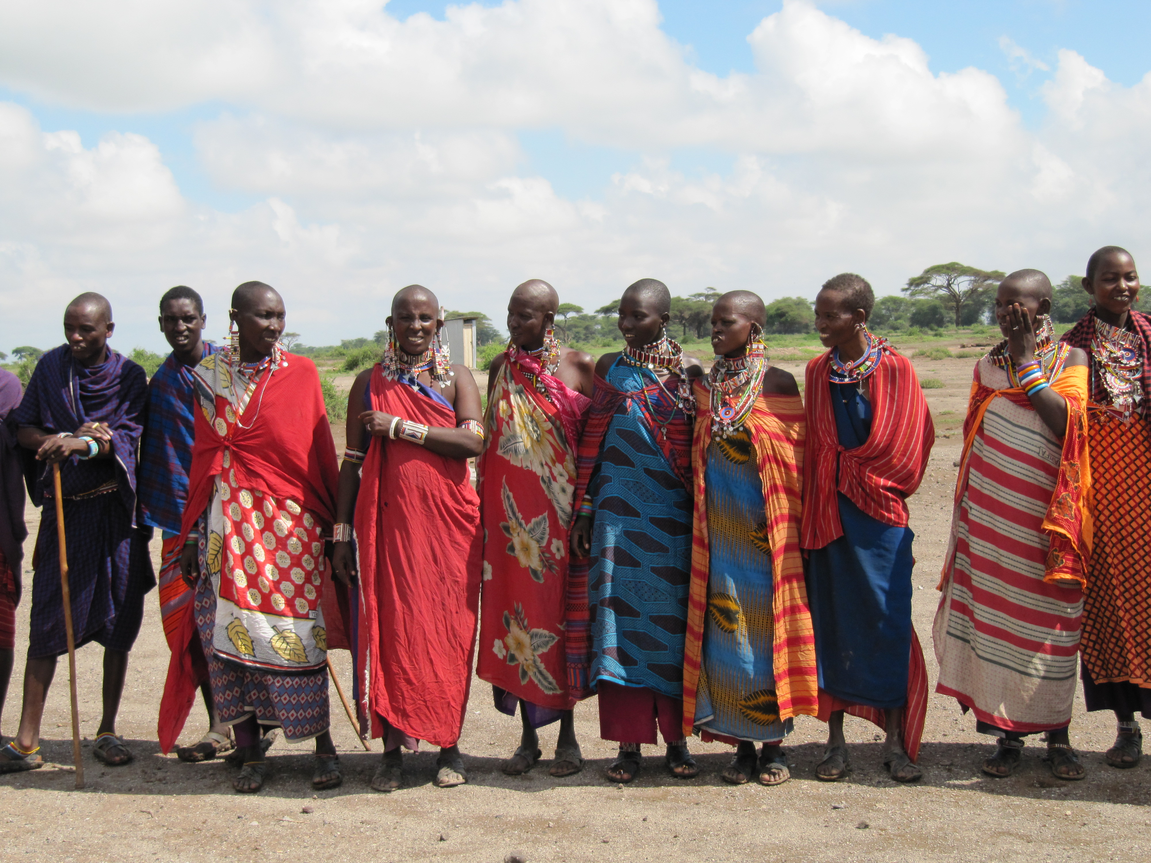 Masai people. Masai village, Amboseli National Park, Kenya